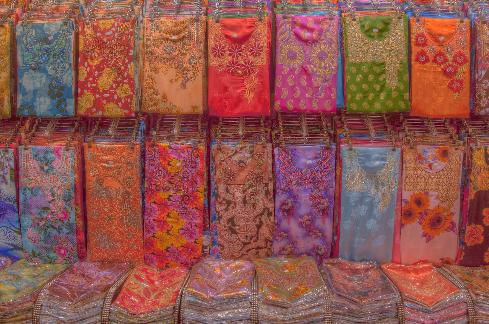 Satin fabrics on display in Souq Waqif, Doha, Qatar.